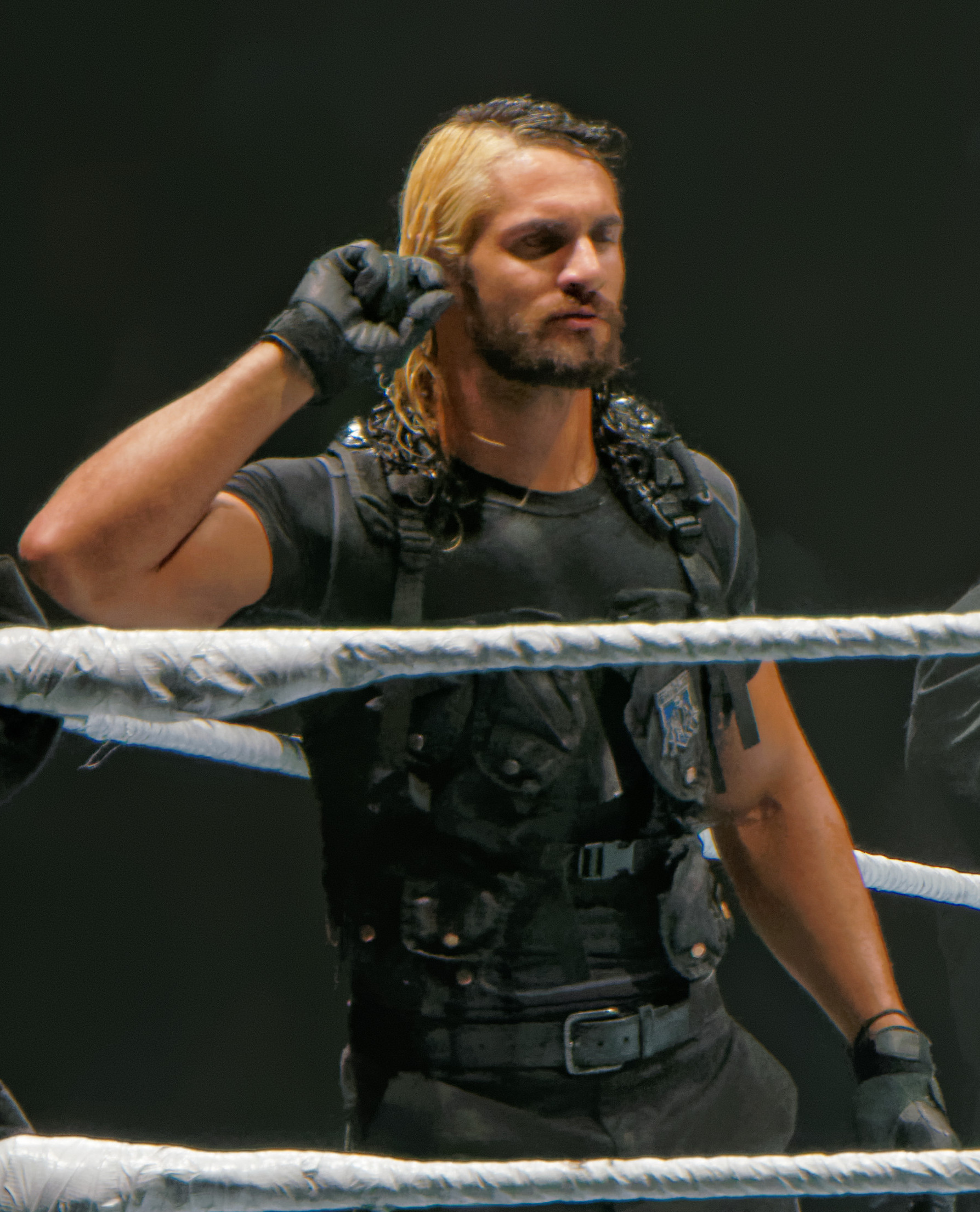 Seth Rollins at a WWE show on November 8, 2013. Cropped from original image.